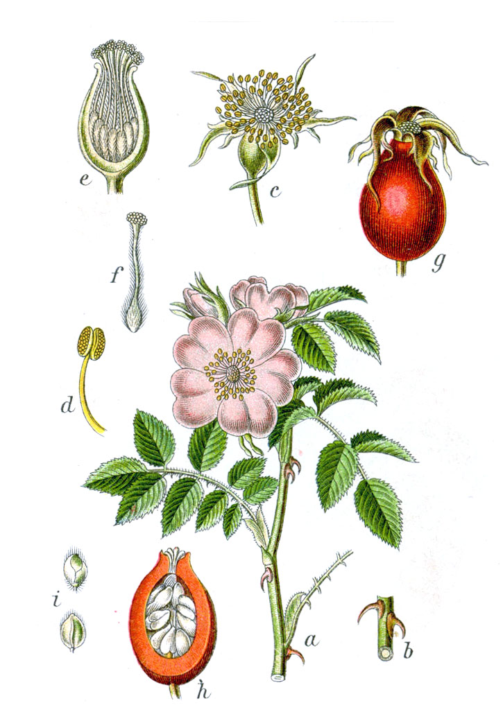 Rosa canina var. dumetorum (Thuill.) Poir., syn. Rosa corymbifera Borkh. s. l., Rosa dumetorum Thuill., Rosa x dumetorum Thuill. Original Description Haarige Hundsrose, Rosa hybrida dumetorum